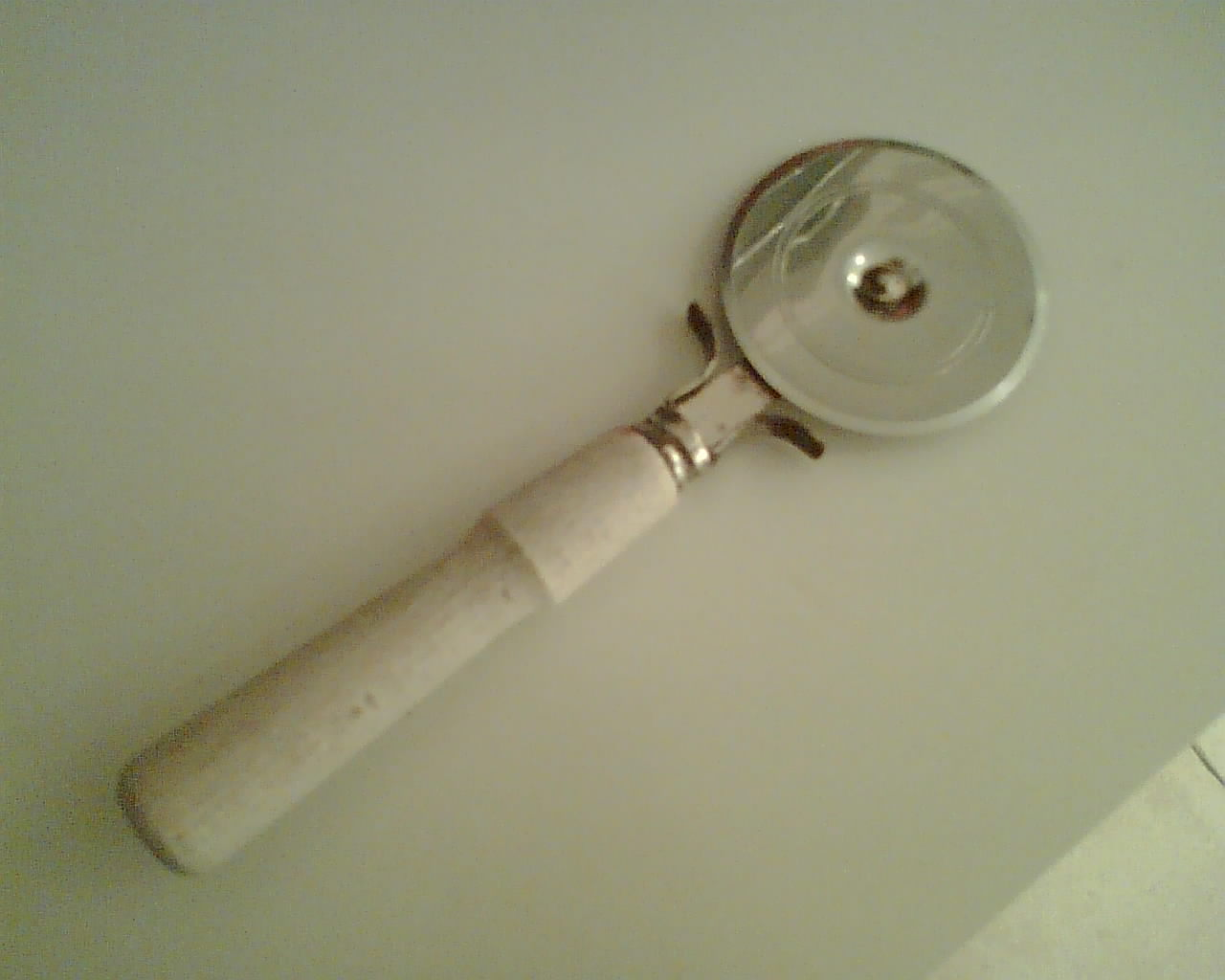 Pizza cutter